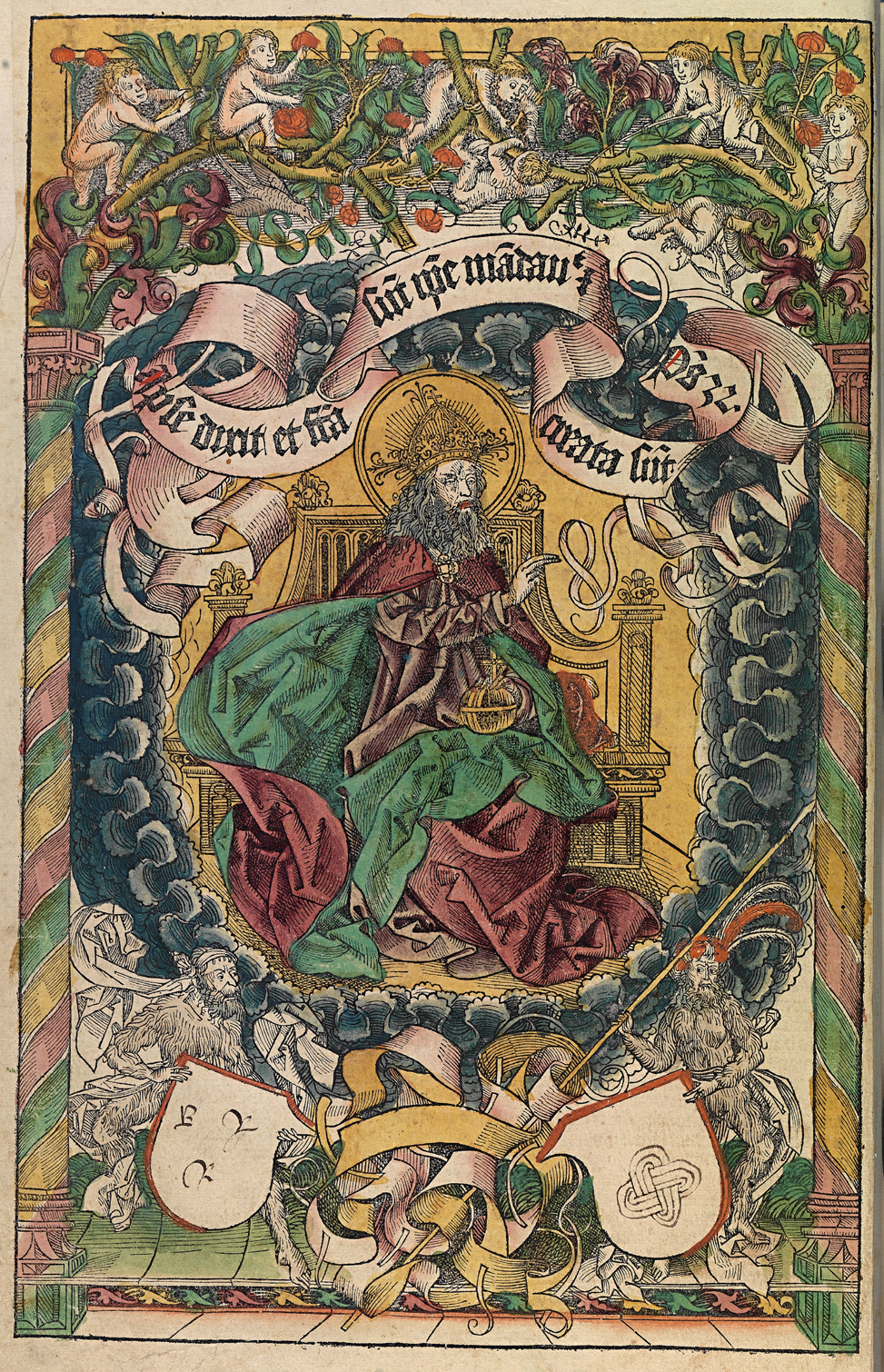 This is a part of a scan of an historical document: Title: Schedelsche Weltchronik or Nuremberg Chronicle